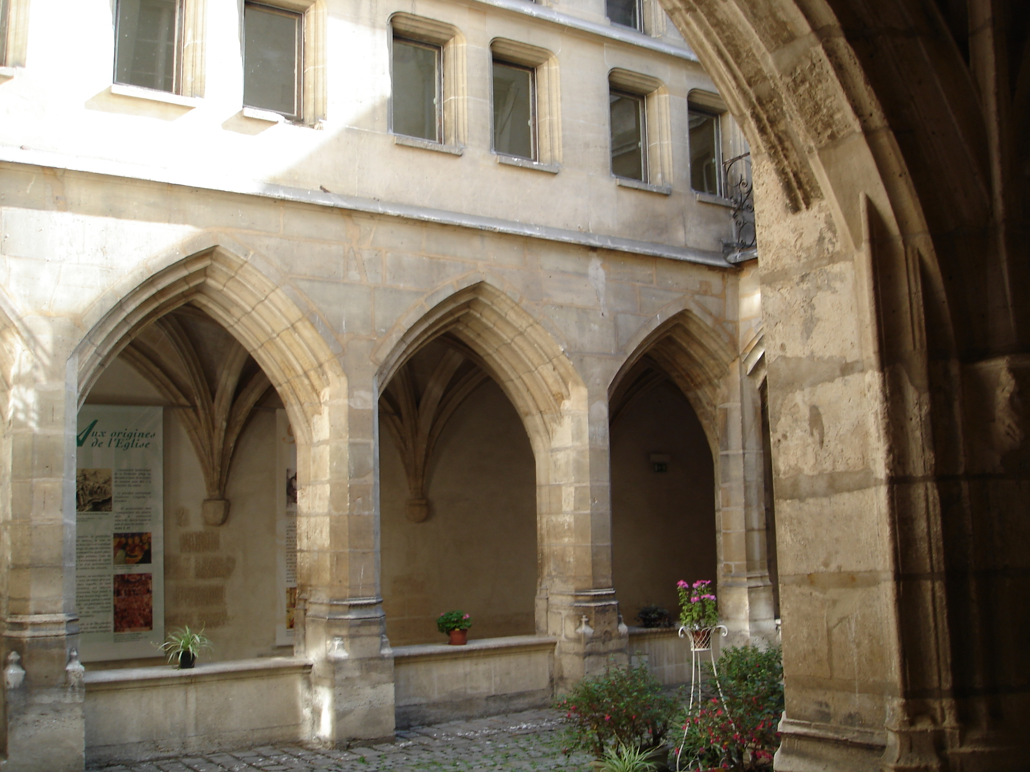 "Église des Billettes": Lutherian church, rue des Archives, Paris (The cloister)